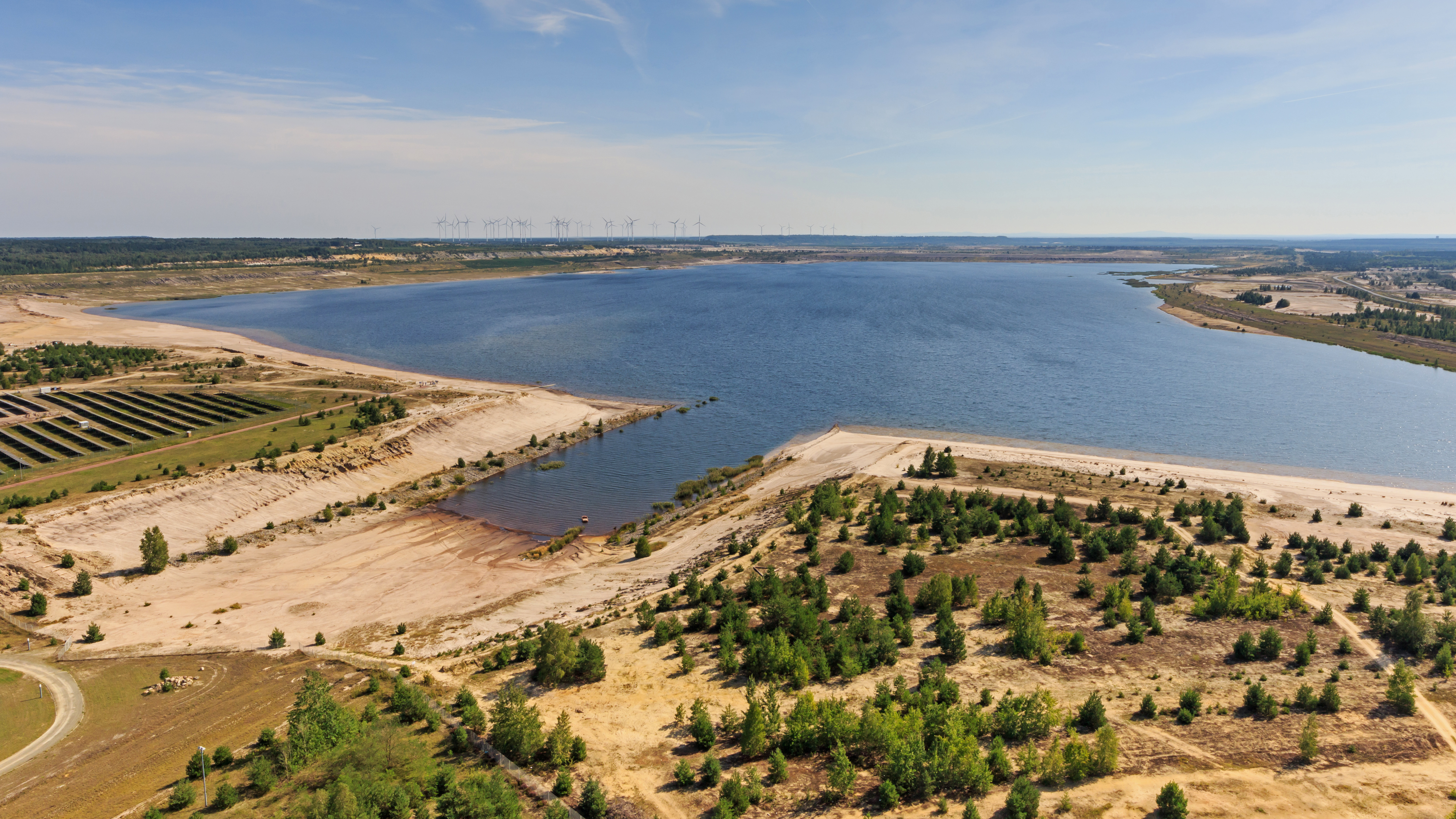 Lake Bergheider See near Lichterfeld (EE), Brandenburg, Germany. View from F60.